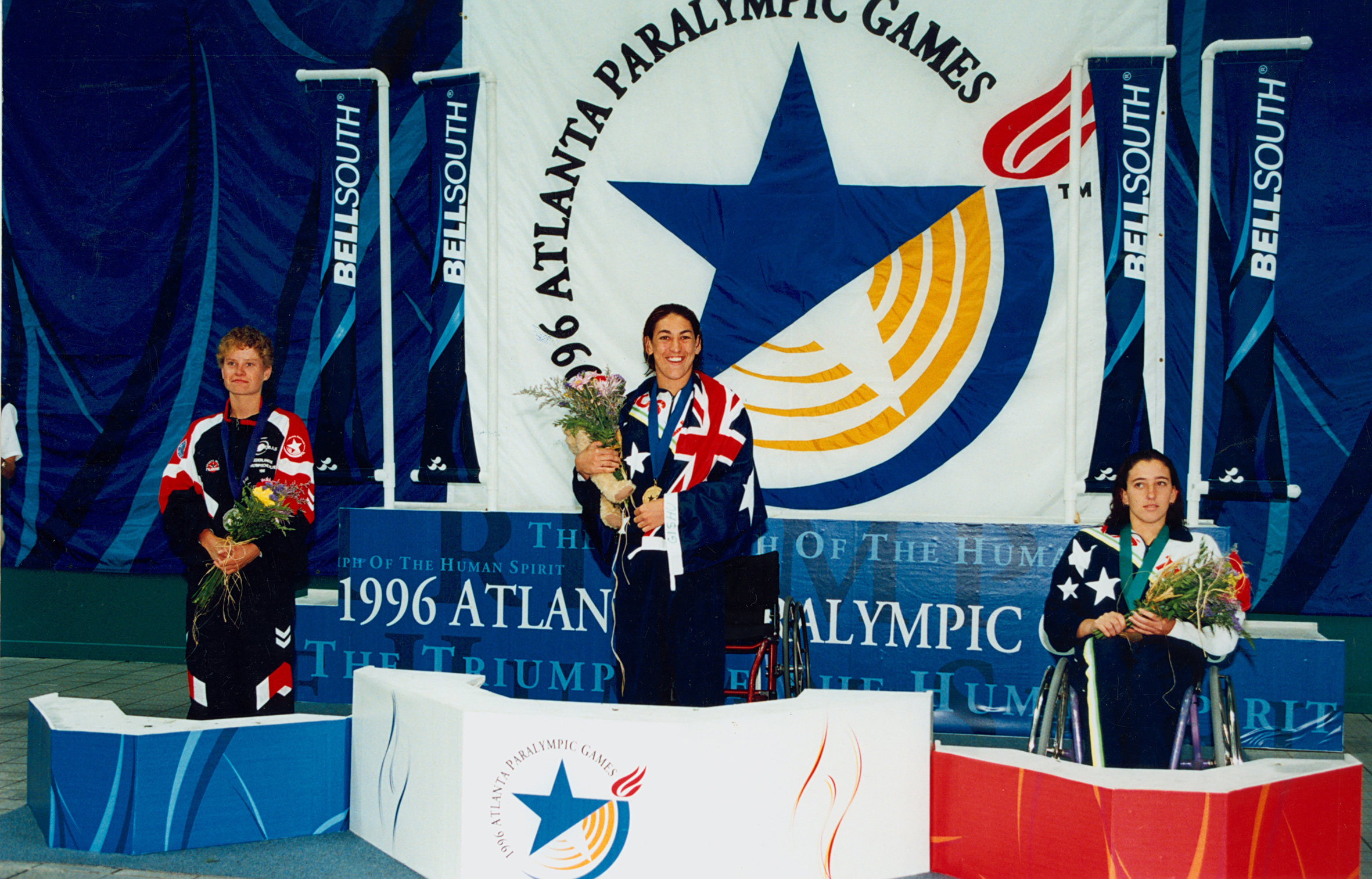 Australian swimmers Priya Cooper (gold) and Janelle Falzon (bronze) and Dutch swimmer Petra Reuvekamp on the medal dais at the 1996 Atlanta Paralympic Games